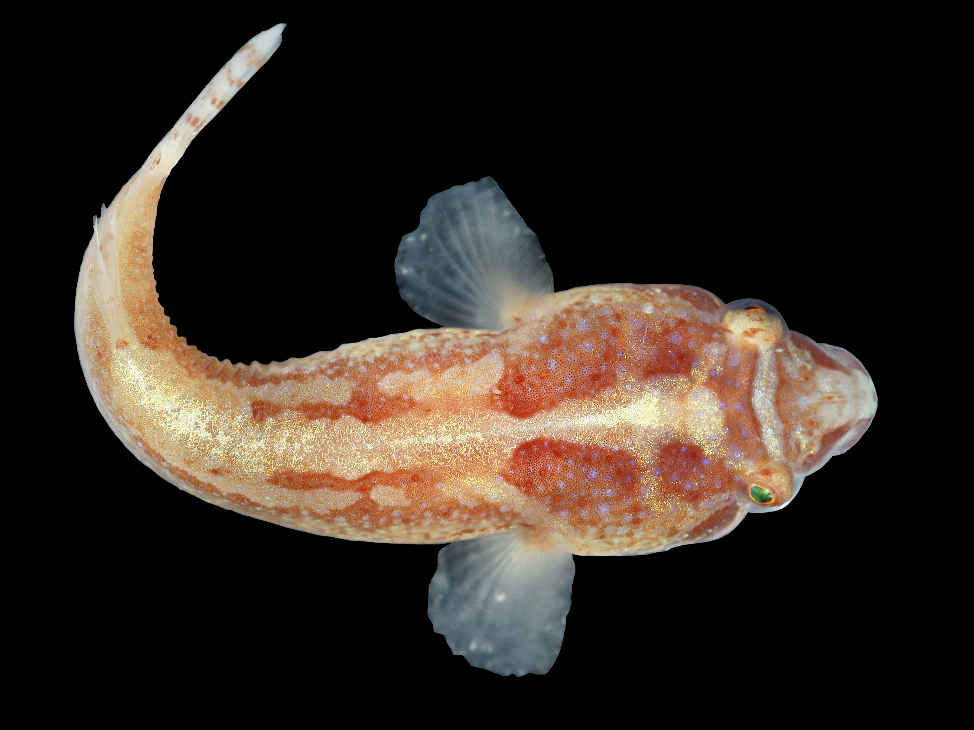 Two-spotted clingfish from Westdiep on the Belgian part of the North Sea, Belgium. The co-ordinates are the centre of a 1.8 nm NE–SW fish track.